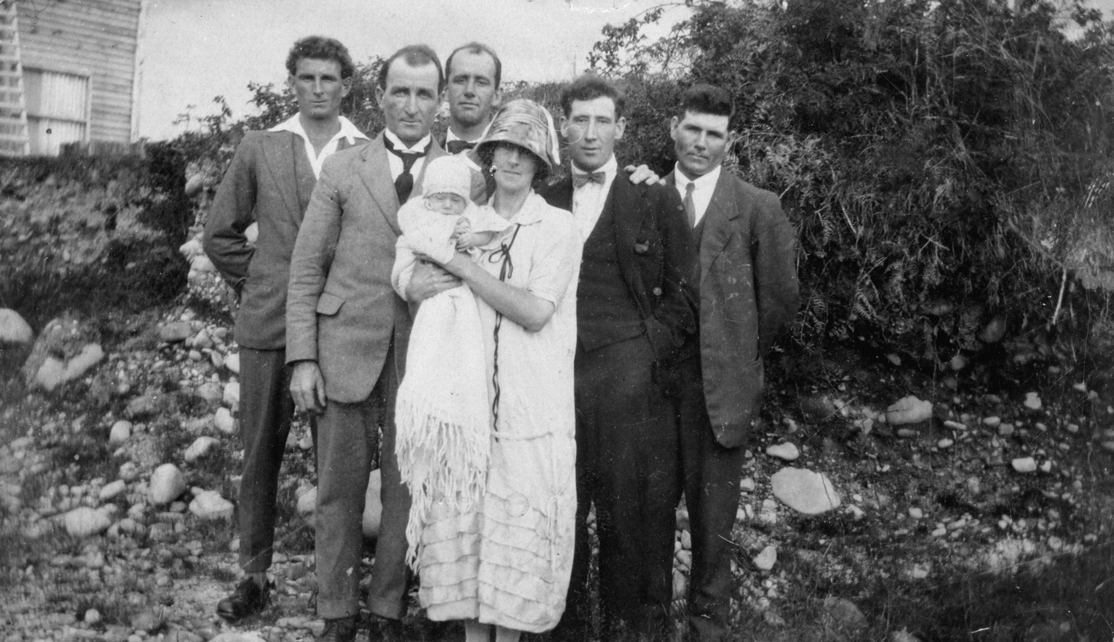 Photograph of West Coast Communist Party members on St. Patricks Day, 1922